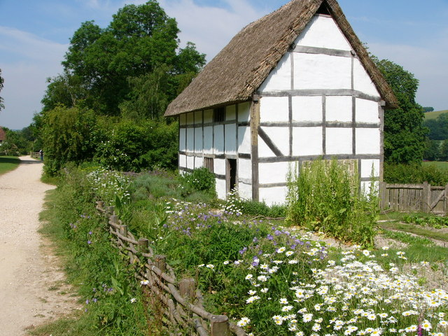 Photograph of Poplar Cottage, Weald and Downland Open Air Museum